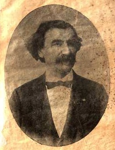 Gheorghe Moceanu (1838-1909), Romanian gymnastics educator